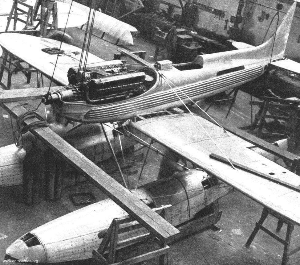 Rolls-Royce R installed in a Supermarine S.6B seaplane